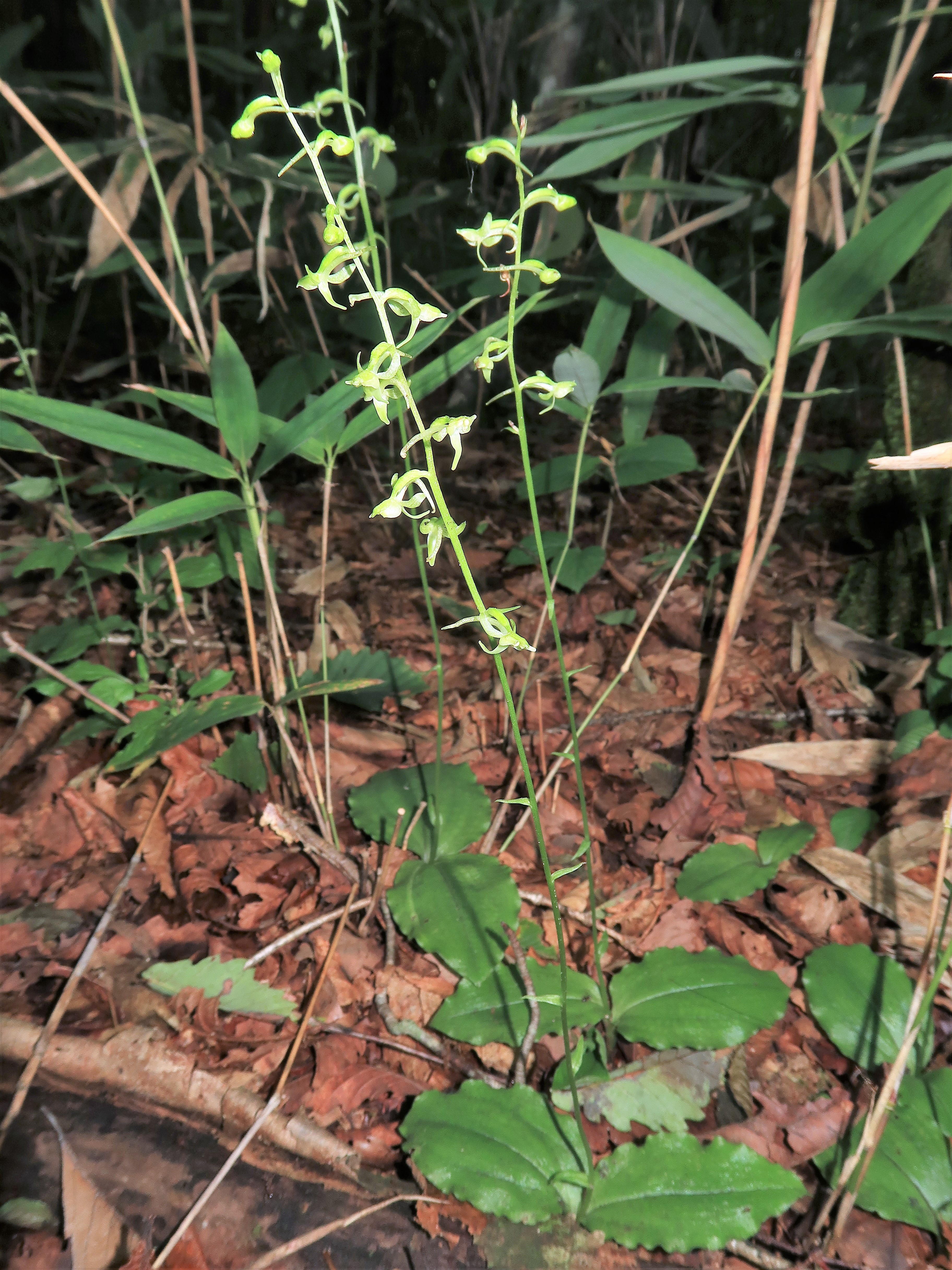 Platanthera florentii, Nouth area, Ibaraki pref., Japan